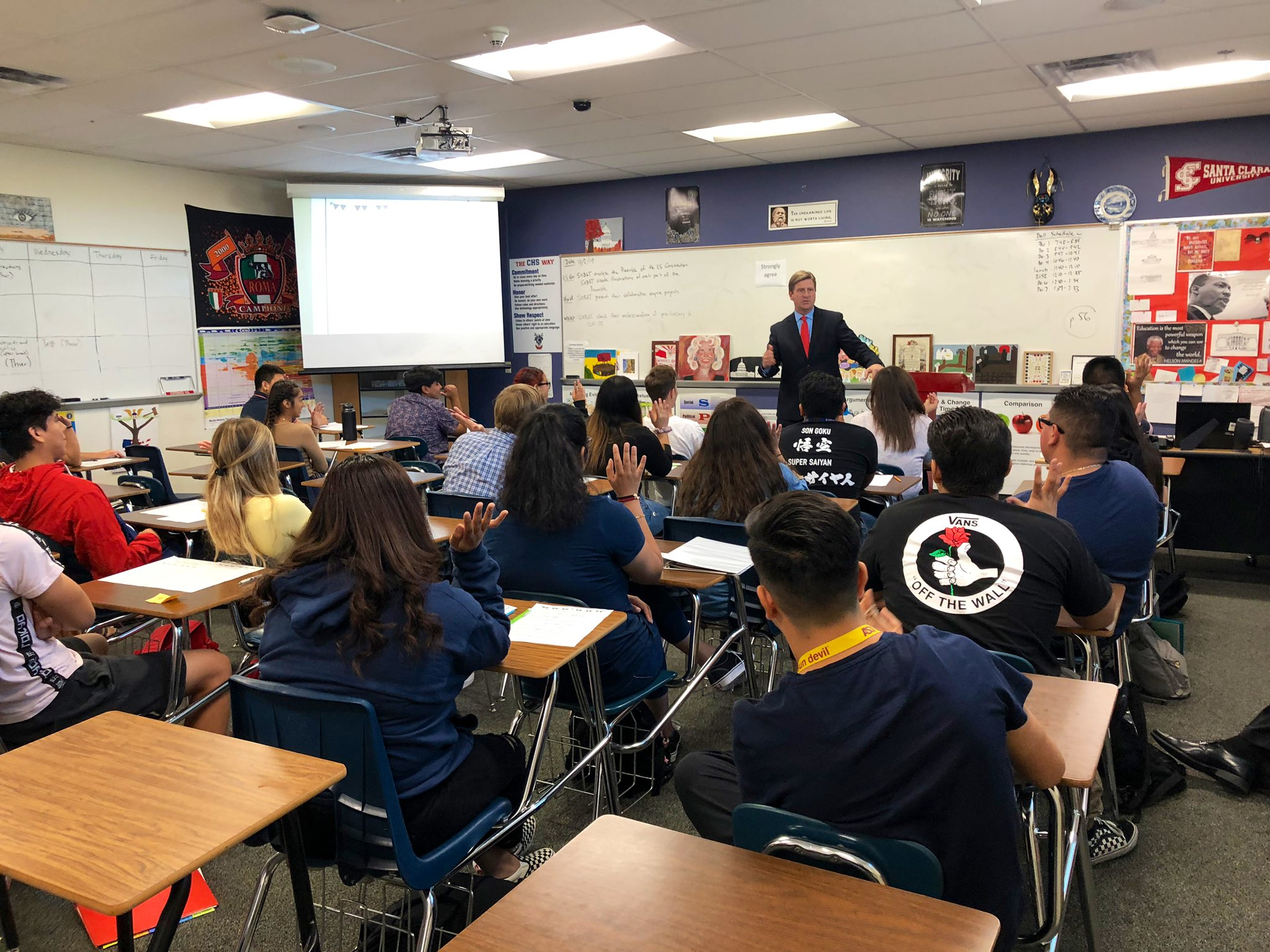 I’m fortunate to represent South Scottsdale in Congress, including @CoronadoSUSD. I had the chance to visit with several Government classes today to talk with students about my experience in Congress so far and encourage them to get more civically involved. Go Dons!